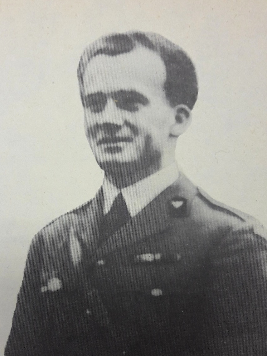 Lt Col Felicjan Majorkiewicz - during the training in the parachute center in Gatley near Manchester